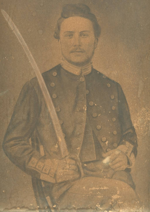 Charles Horton Morgan enlisted as a private in Co. A, 1st Battalion, Hilliard's Legion, C.S.A., and was later promoted to 2nd sergeant, Co. I, 59th Alabama Infantry.